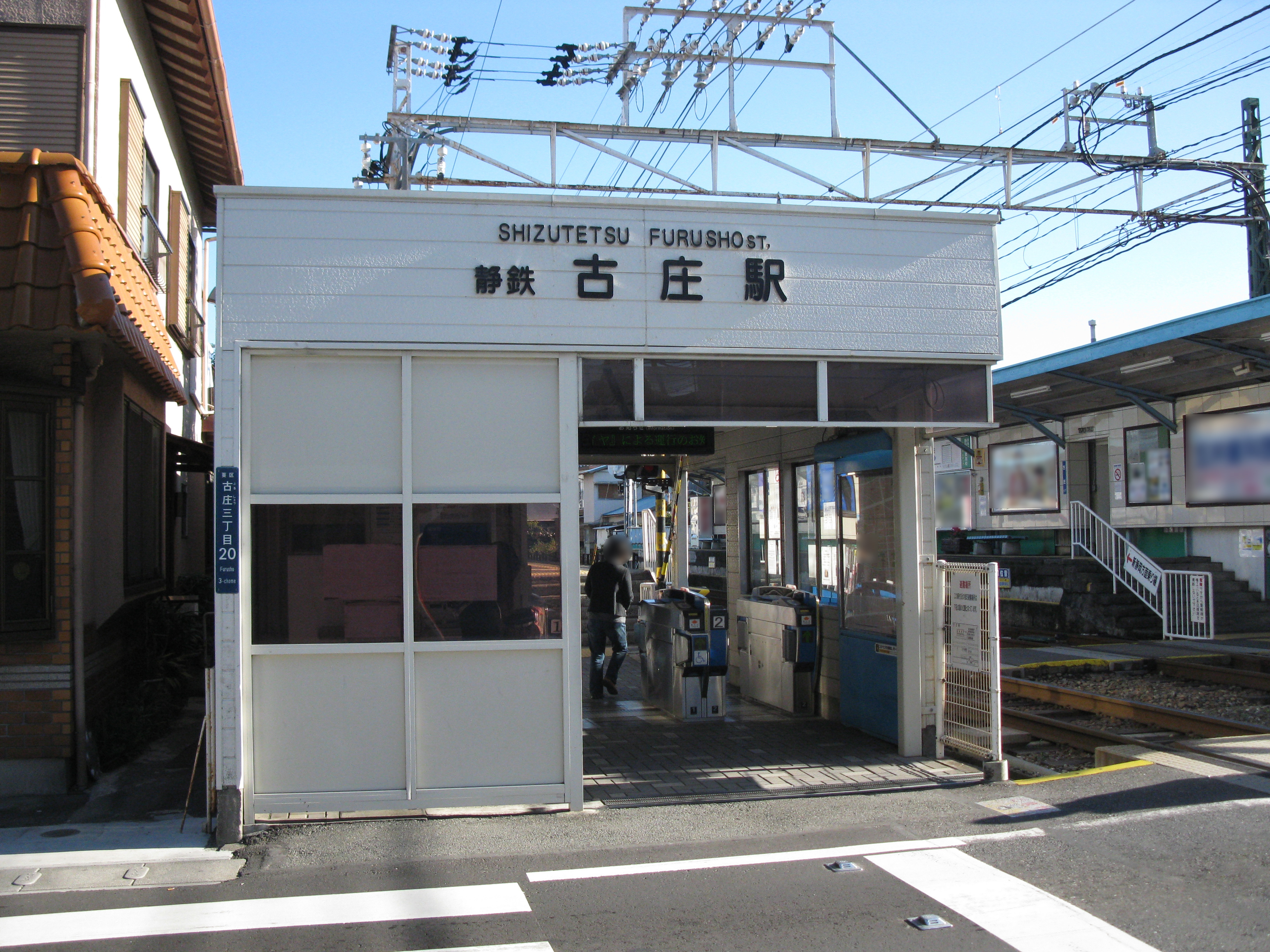 Furushō Station entrance (Shizuoka Railway Shizuoka-Shimizu Line)